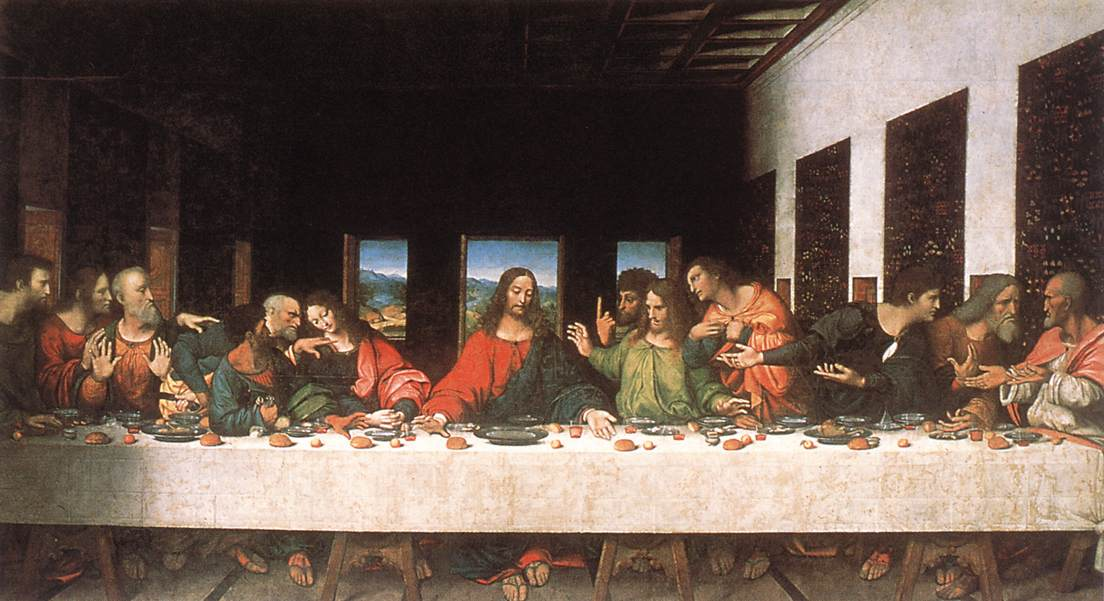 (copy)An artist's copy of Leonardo da Vinci's painting of "The Last Supper". NOTE: This work should not be used to represent the original painting, but only in discussion of copies, lost details etc.